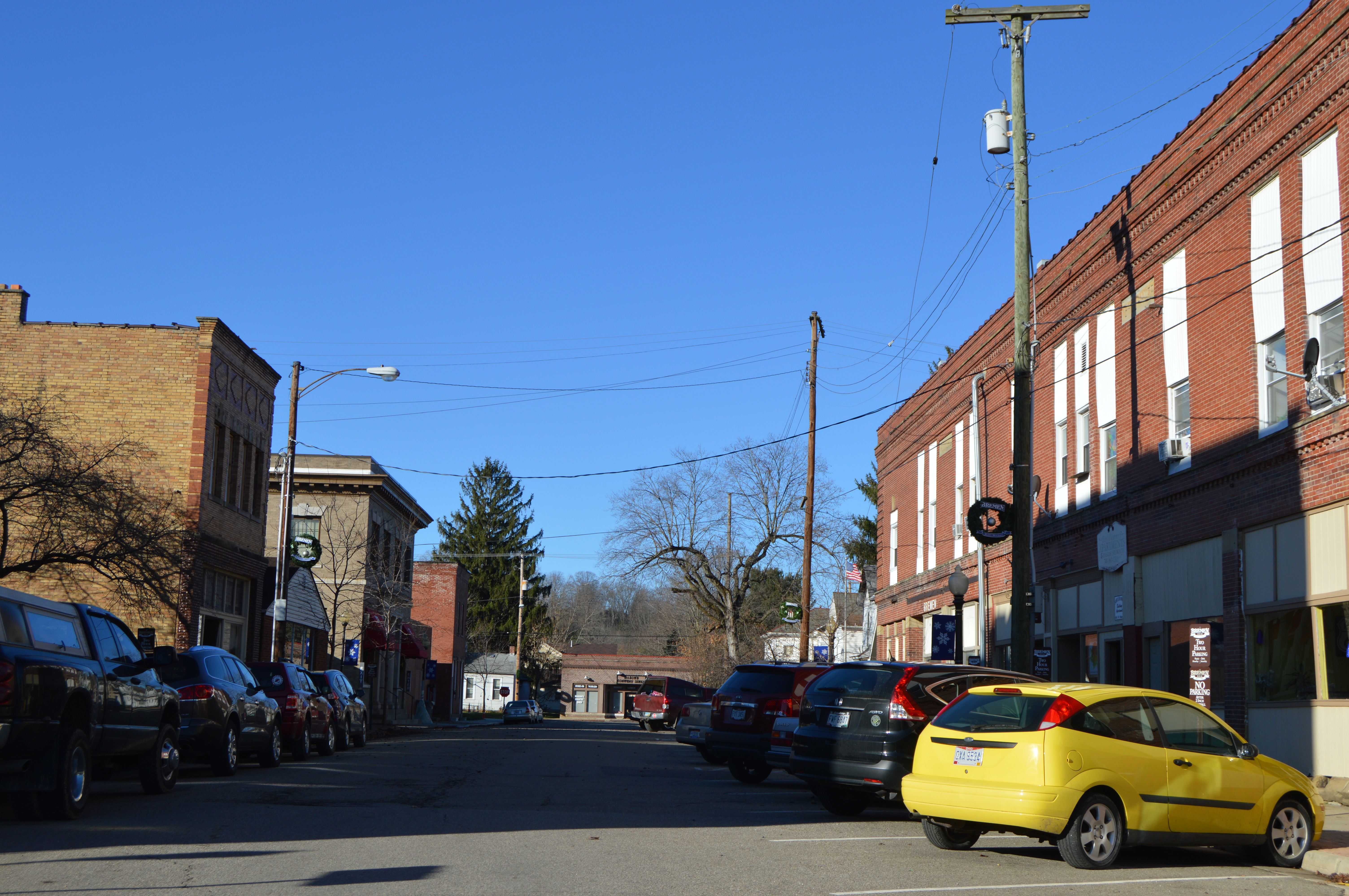 Looking west on Main Street from the Broad Street (State Route 664) intersection in Bremen, Ohio, United States.